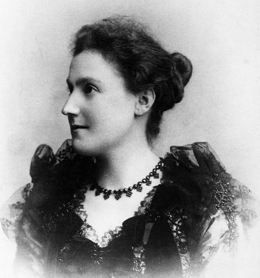 The spiritualist medium Rosina Thompson.